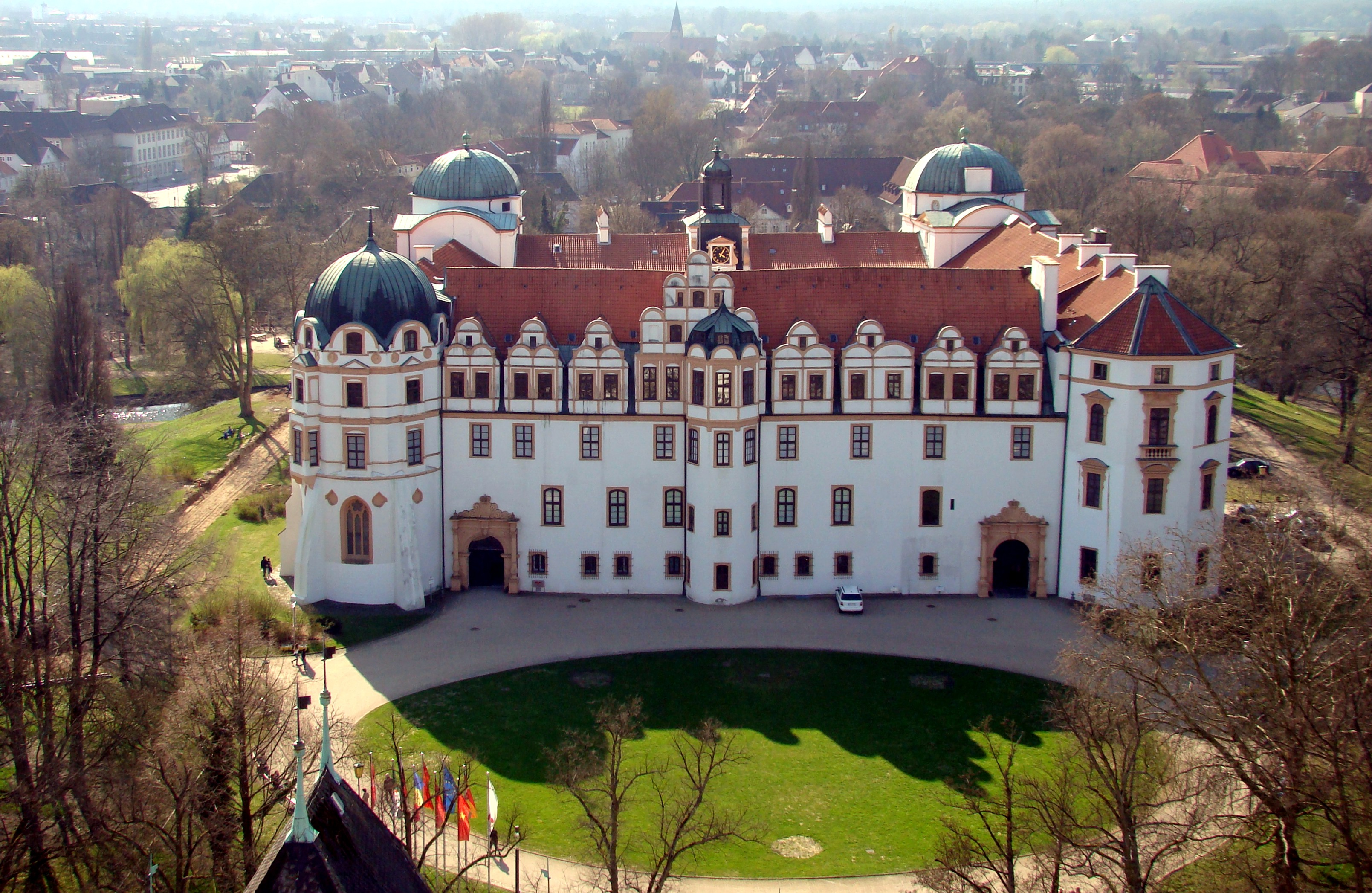 Celle Castle